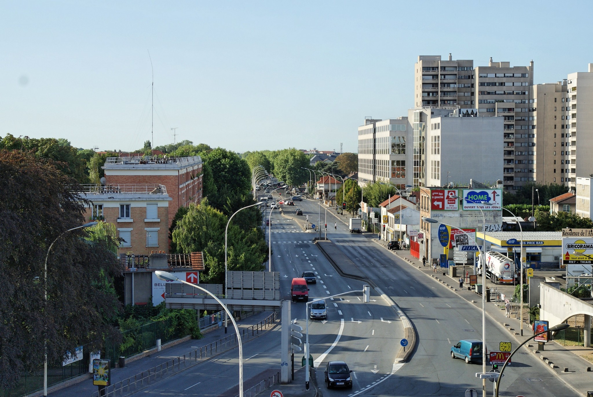 The route nationale 7: view from Villejuif – Louis Aragon parking.